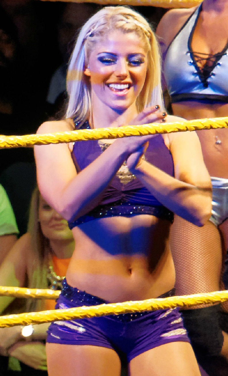 Alexa Bliss At the WrestleMania Axxess in 2015.